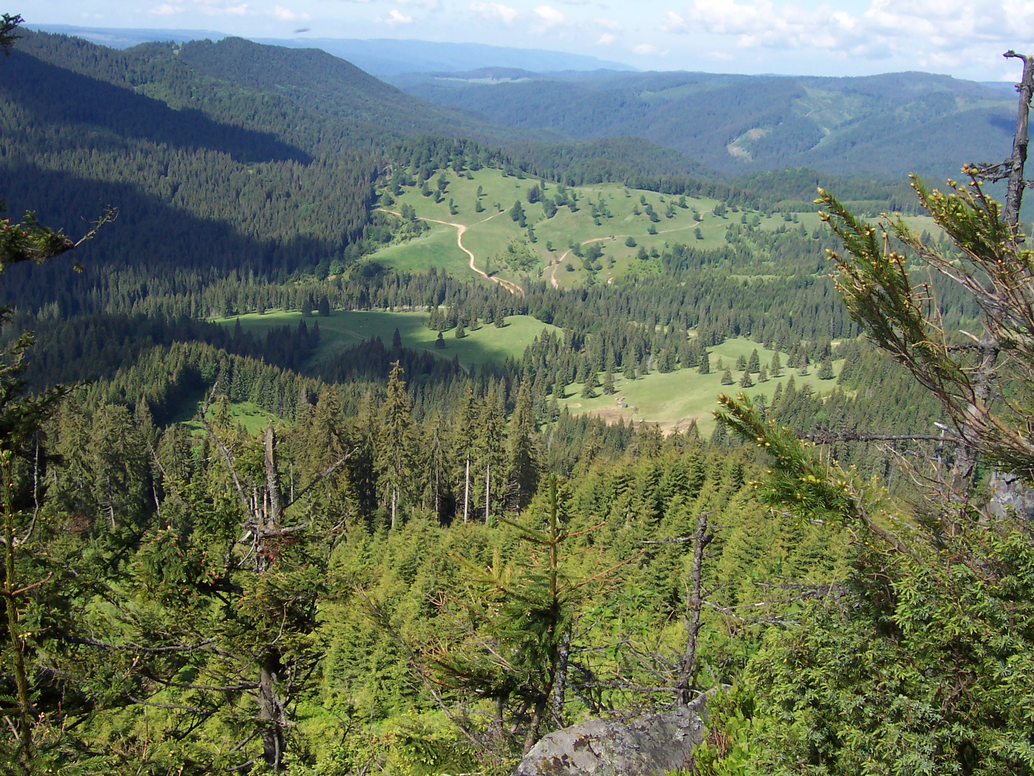 Hills around Remetea